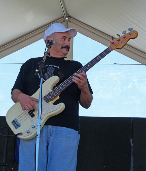 roy estrada; Much better than driving the Orange County Lumber truck. A legend. formed Little Feat with Lowell George, and played with Captain Beefheart.